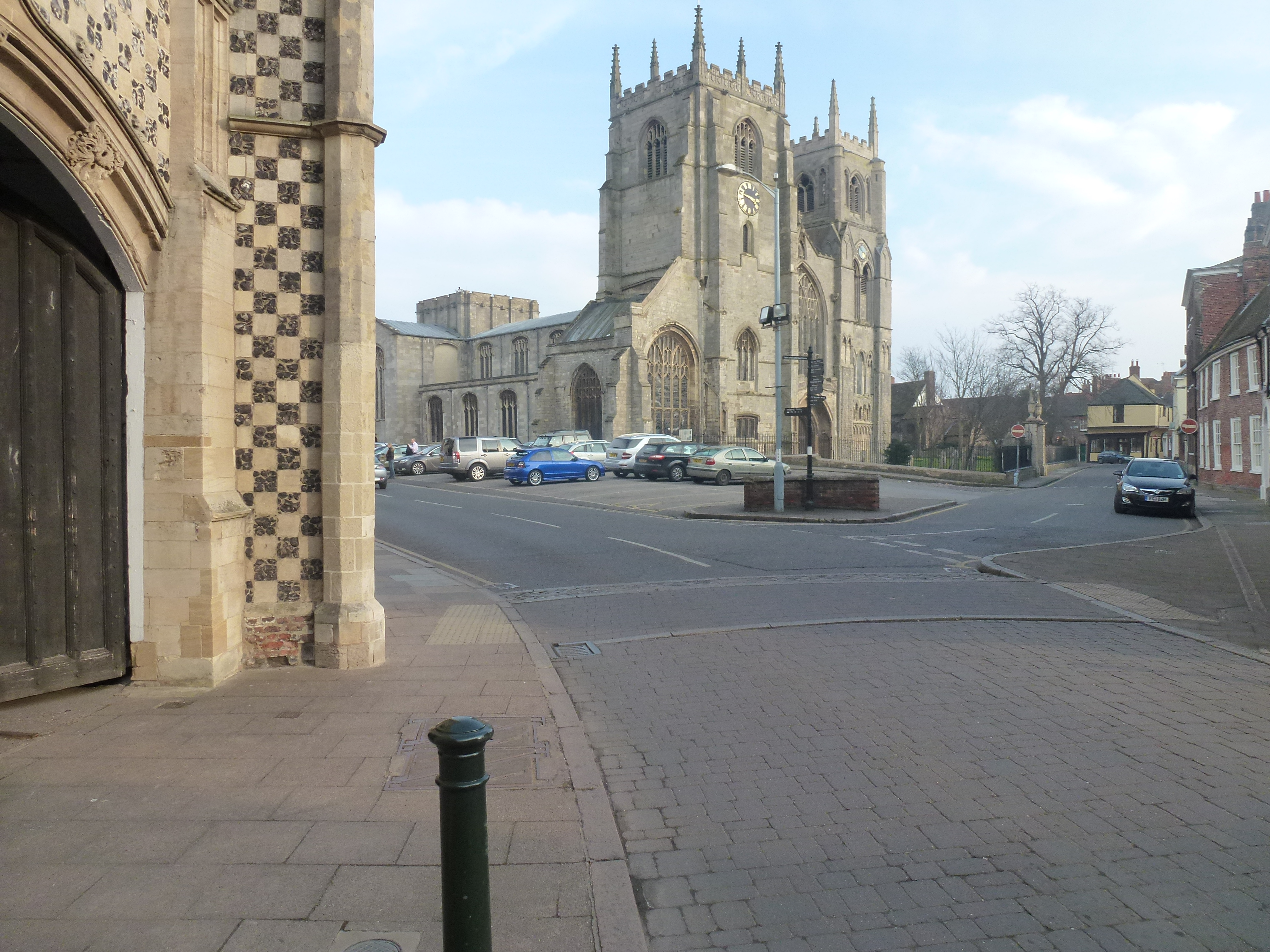 This is a Comparison photo of St Margaret's church taken from the same viewpoint as the pre 1914 photograph